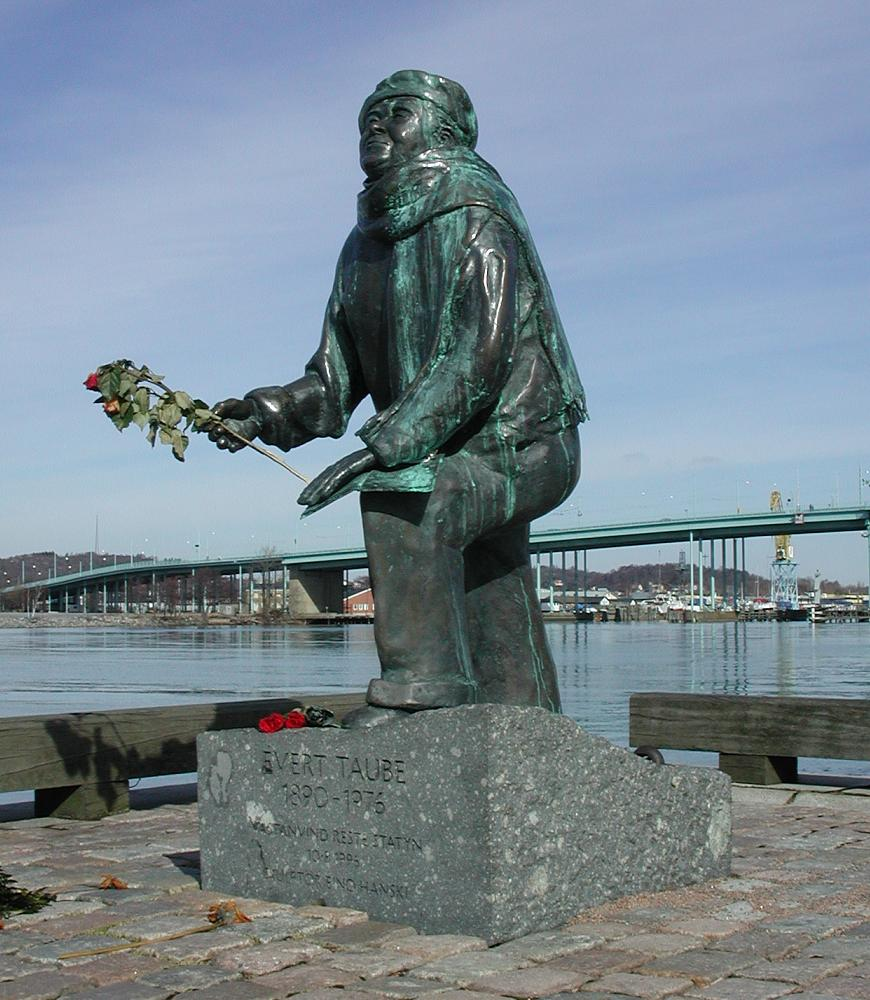 Sculpture of Evert Taube by Eino Hanski Photographer: Pär Henning